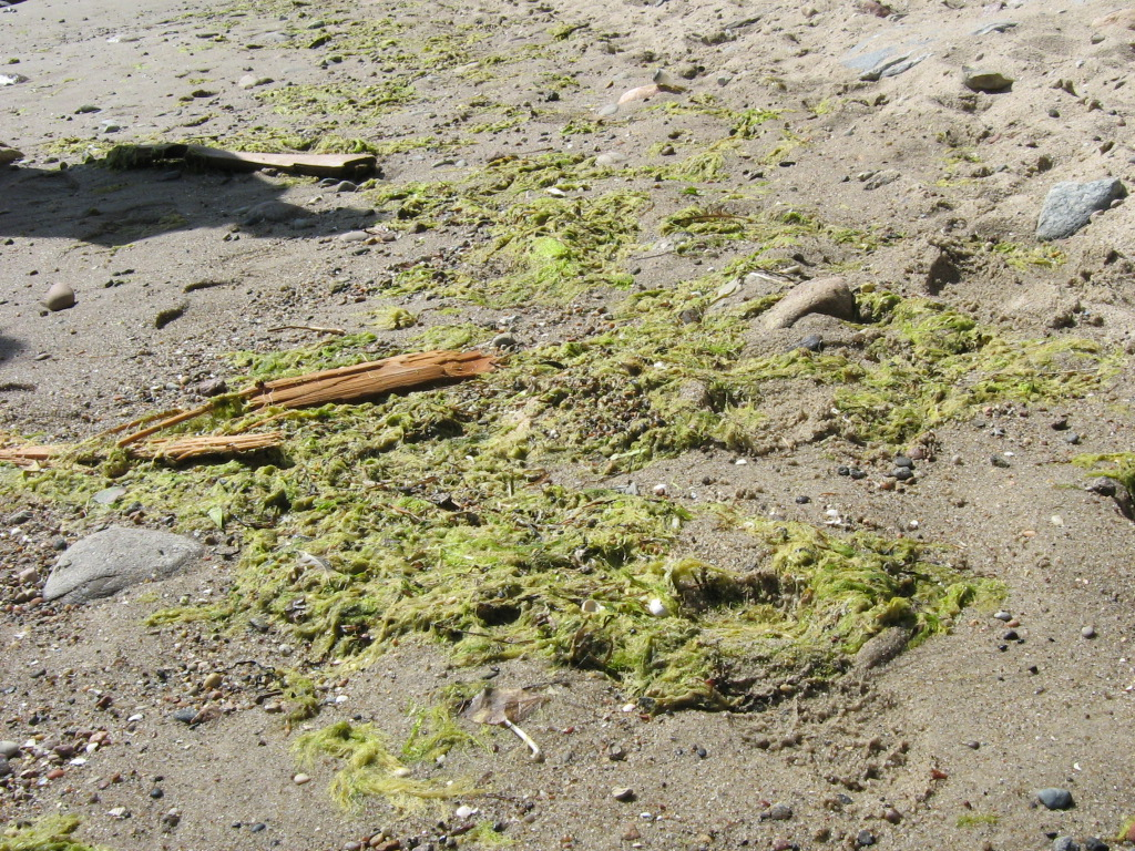 Organic remains on drift line, mainly Cladophora, Ulva and Zostera and driftwood) (Orlowo Cliff beach, Poland).